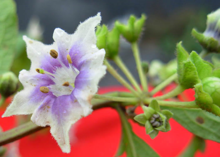 Flower of Jaltomata cajamarca, Collection Mione, Leiva G. & Yacher 757, collected in Peru, Province Contumazá. Photo taken in Peru, 22 Mar 2007